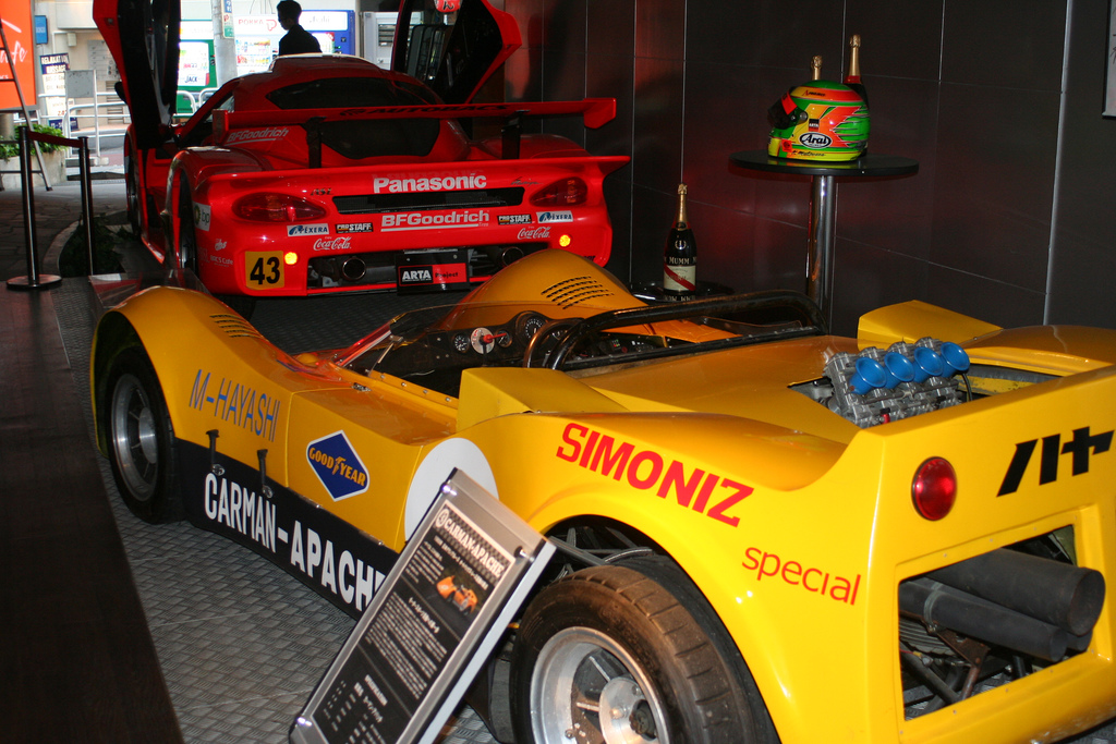 Lobby at AUTOBACS restaurant in tokyo, featuring an Autobacs Garaiya GT300 and a 1969 Carman-Apache Can-Am style racer, powered by an air-cooled 1300cc Honda engine.